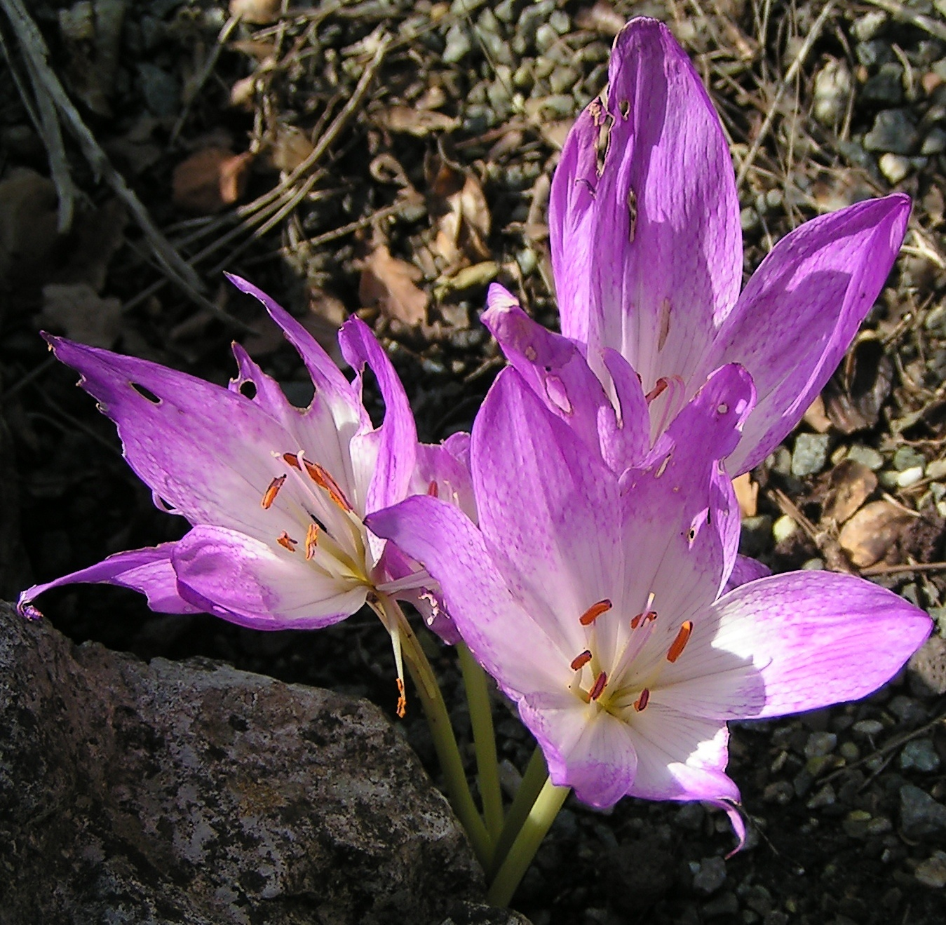 Colchicum bowlesianum 2005, sep 4 by pethan Botanical Gardens Utrecht University